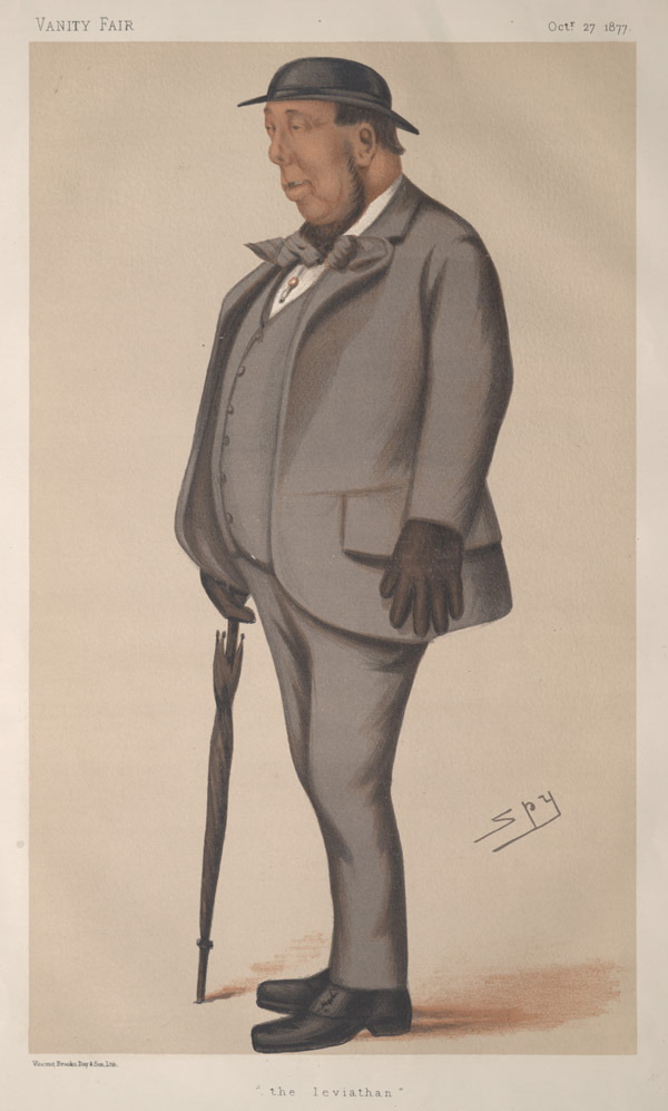 Men of the Day No.163: Caricature of Mr Henry Steel. One of the directors of Steel and a bookmaker. He was known as the Leviathan in racing circles due to the size of his betting business. Probably 1835-1920. Caption reads: "the leviathan"